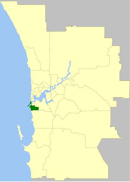 Location of the Local Government Area City of Fremantle in Perth, Western Australia